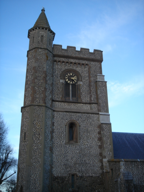 Tower of St Andrew's Church, Church Road, Hove; looking N.